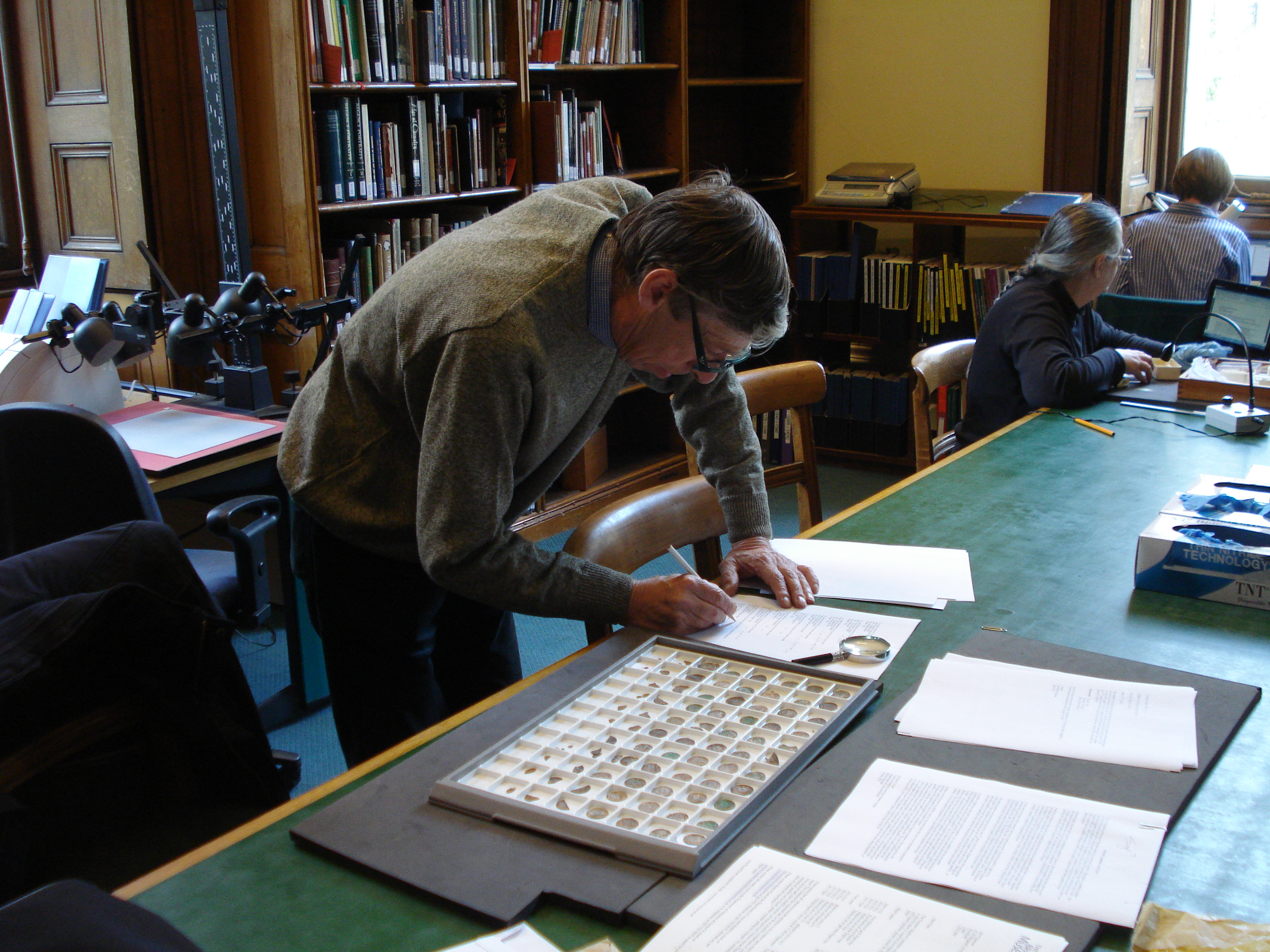 Peter Spencer valuing the Silverdale Hoard at the British Museum